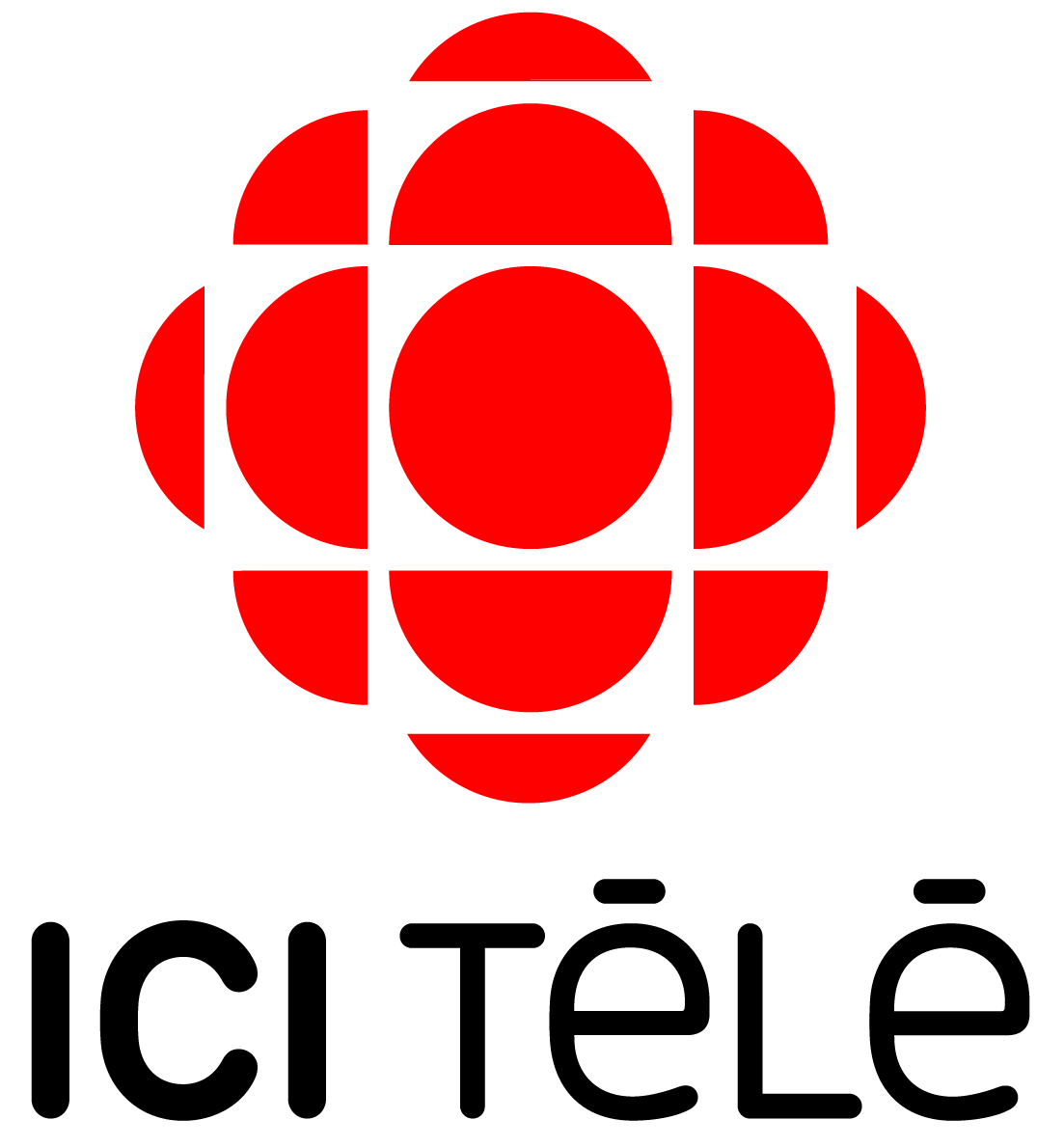 Logo of Ici Radio-Canada Télé